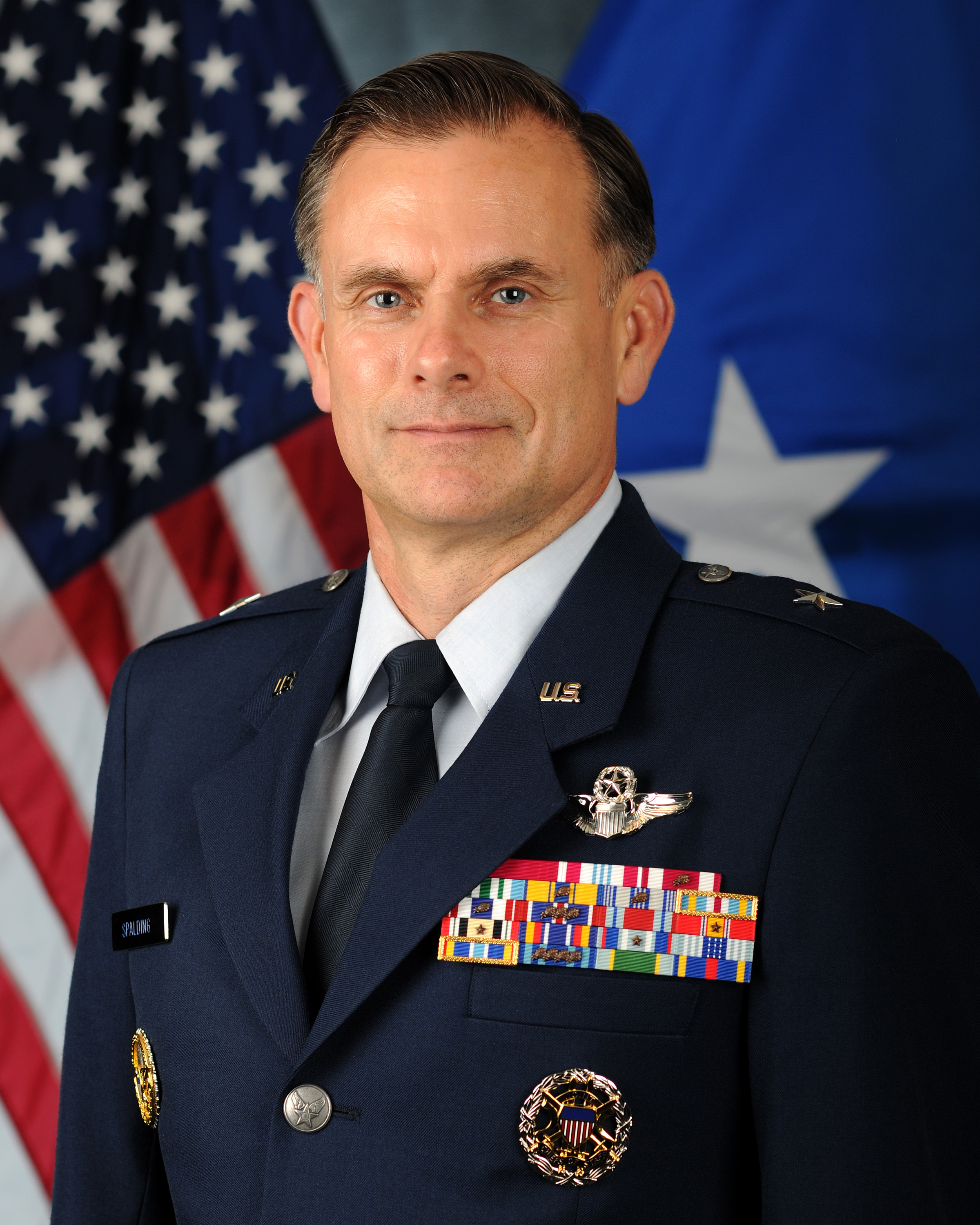 Brigadier General Robert Spalding III official photo.